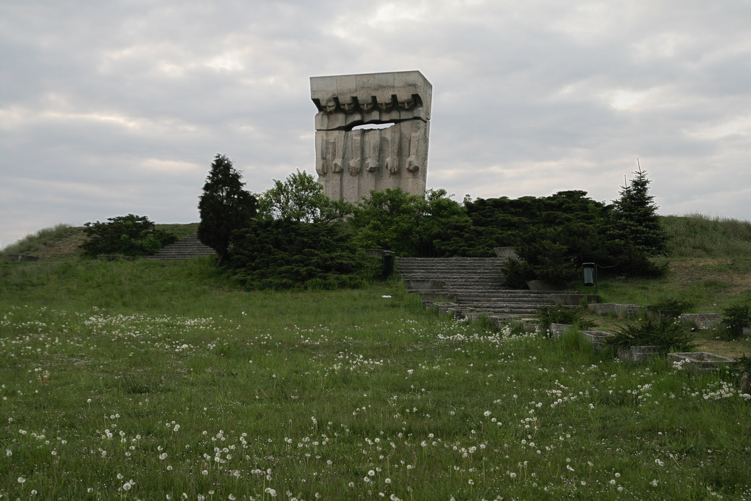 Monument commemorating victims of concentration camp in Plaszow, Cracow